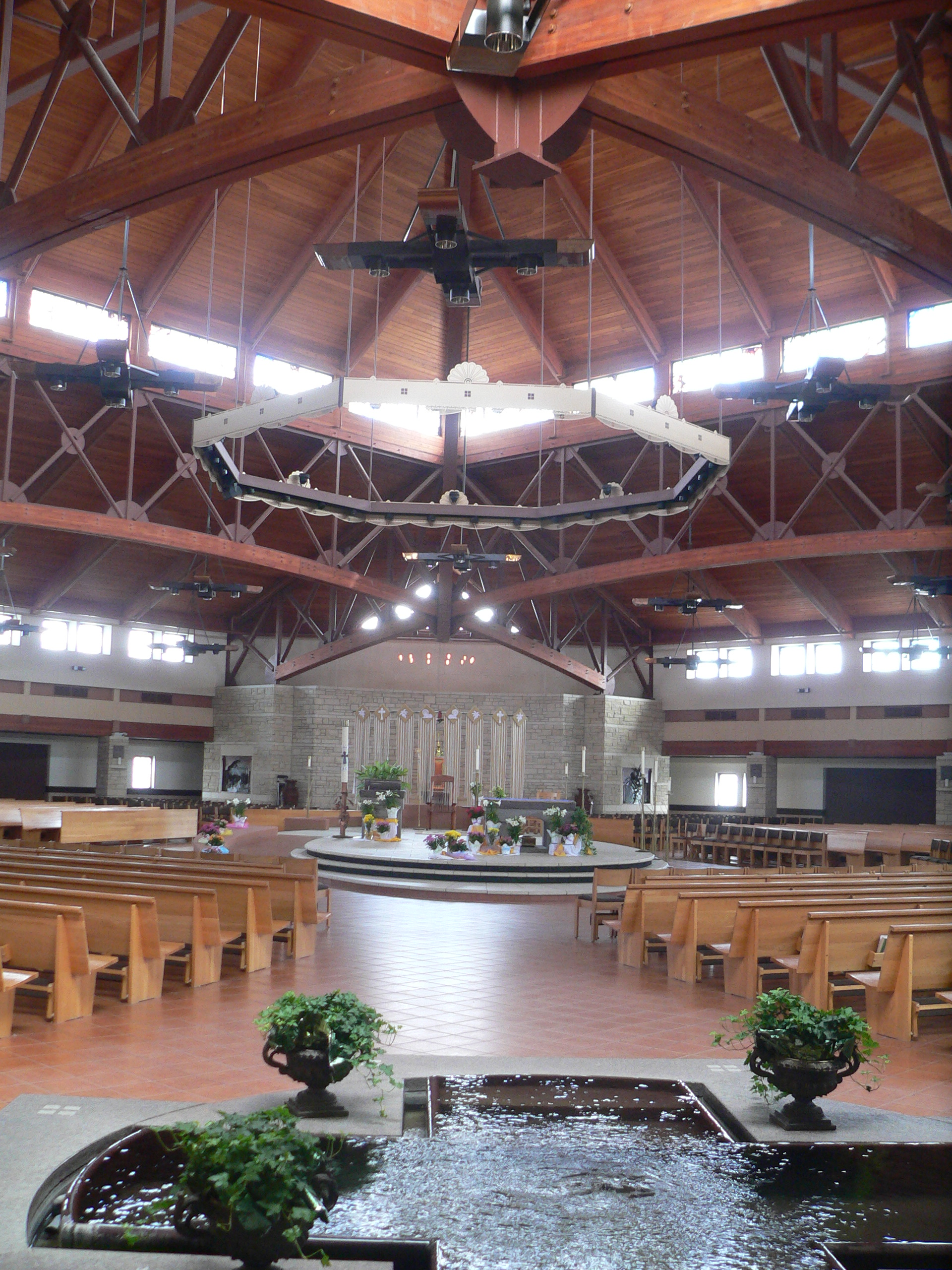 Interior of Our Lady of Guadalupe Cathedral, at 3231 N. 14th, at the northern edge of Dodge City, Kansas.